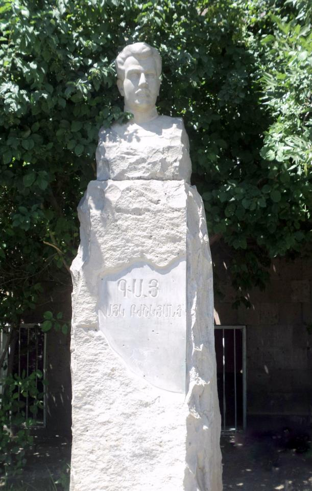 Bust to Gay in front on 129 school in Yerevan